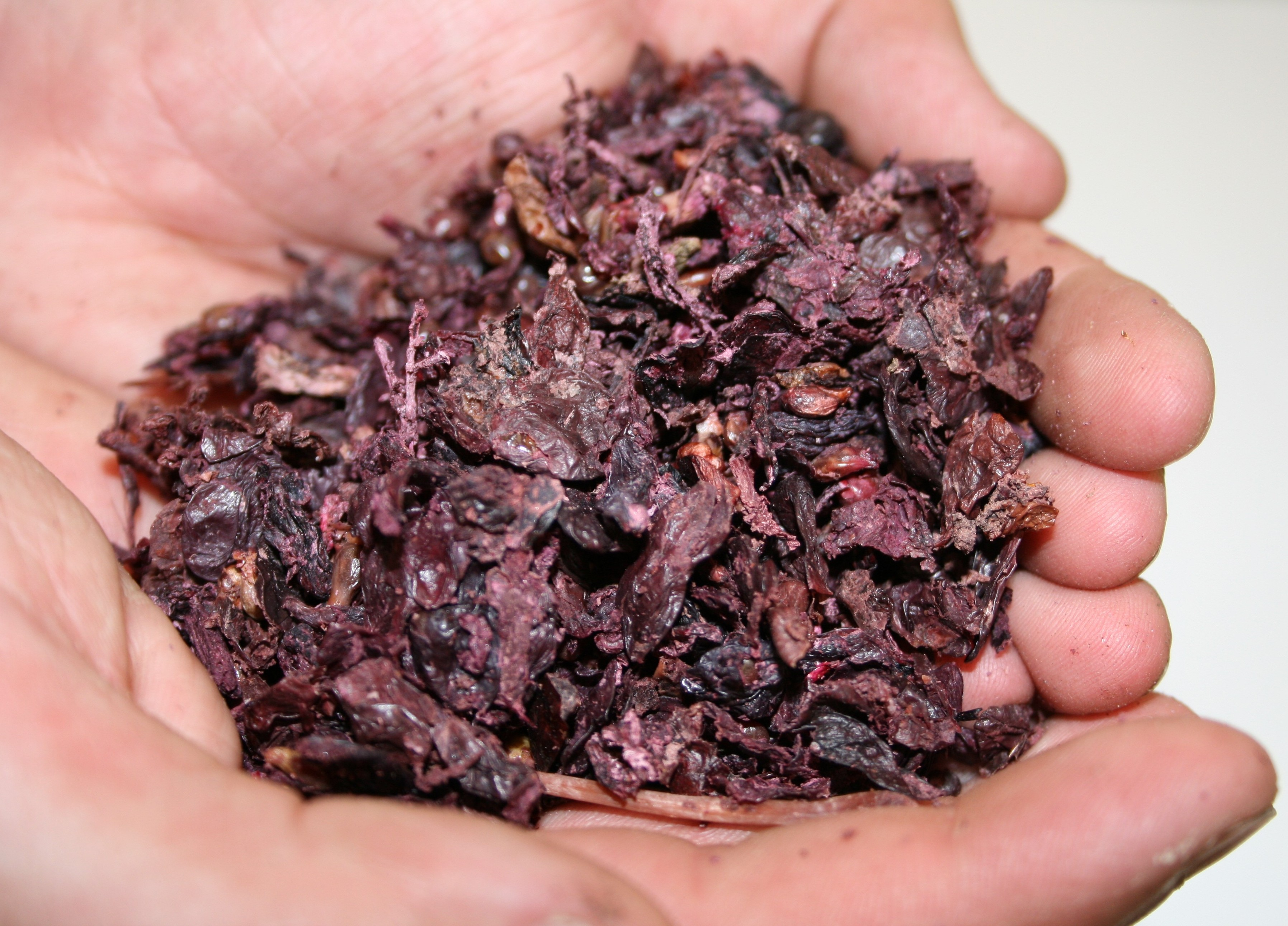 Fresh red grape marc from a winery in the Barossa Valley, South Australia, held in hands to show scale.